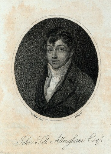 Portrait of John Till AllinghamJohn Till Allingham (fl. 1799–1810), English dramatist.